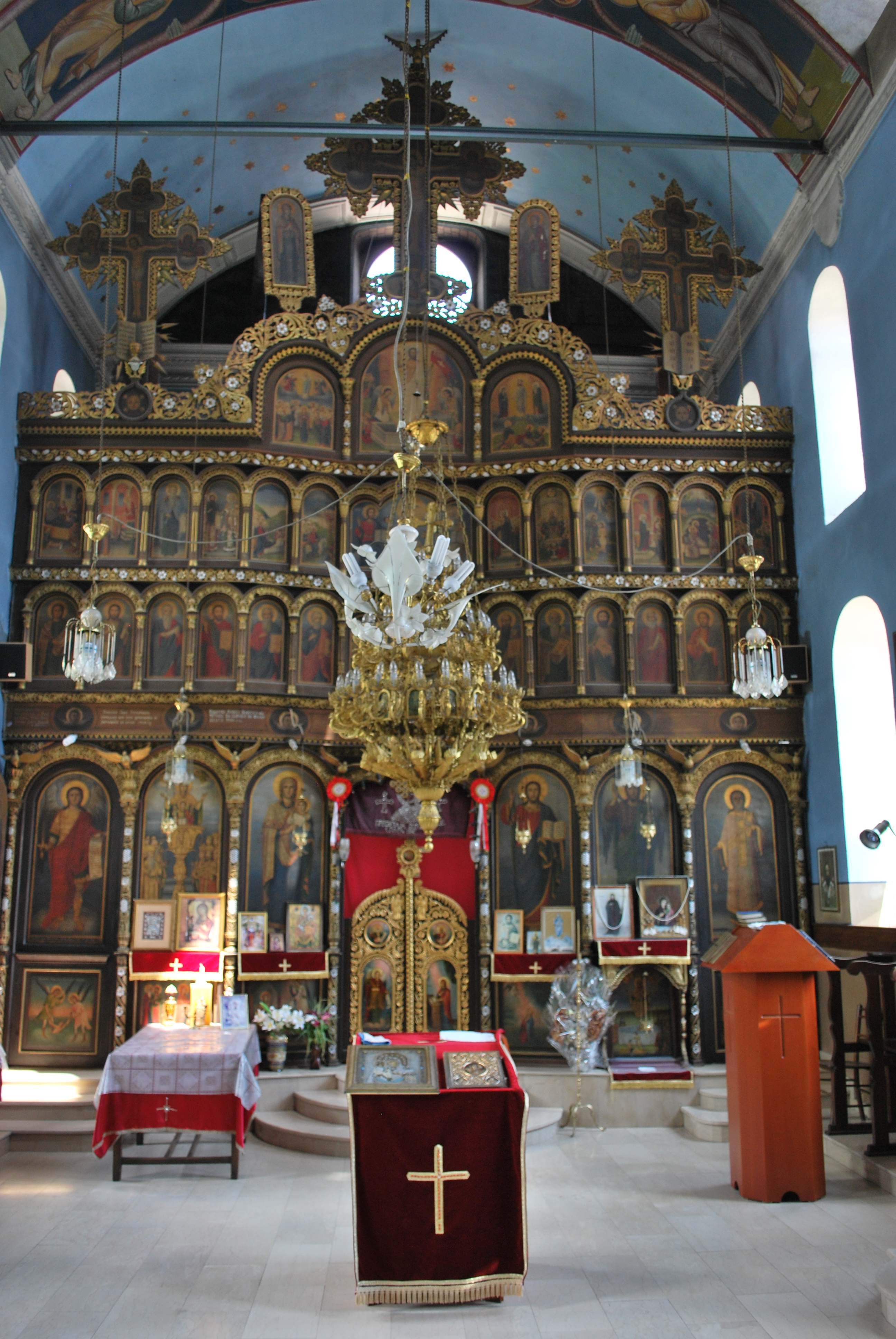 Church of the Theotokos Life Giving Spring in Tetovo, Macedonia